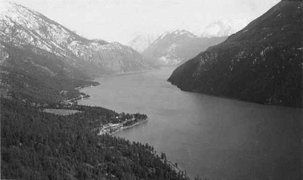 Seton Lake in BC, Canada. Image was taken by my father Endre Cleven c.1950; it is also online at my own website and in a larger format at